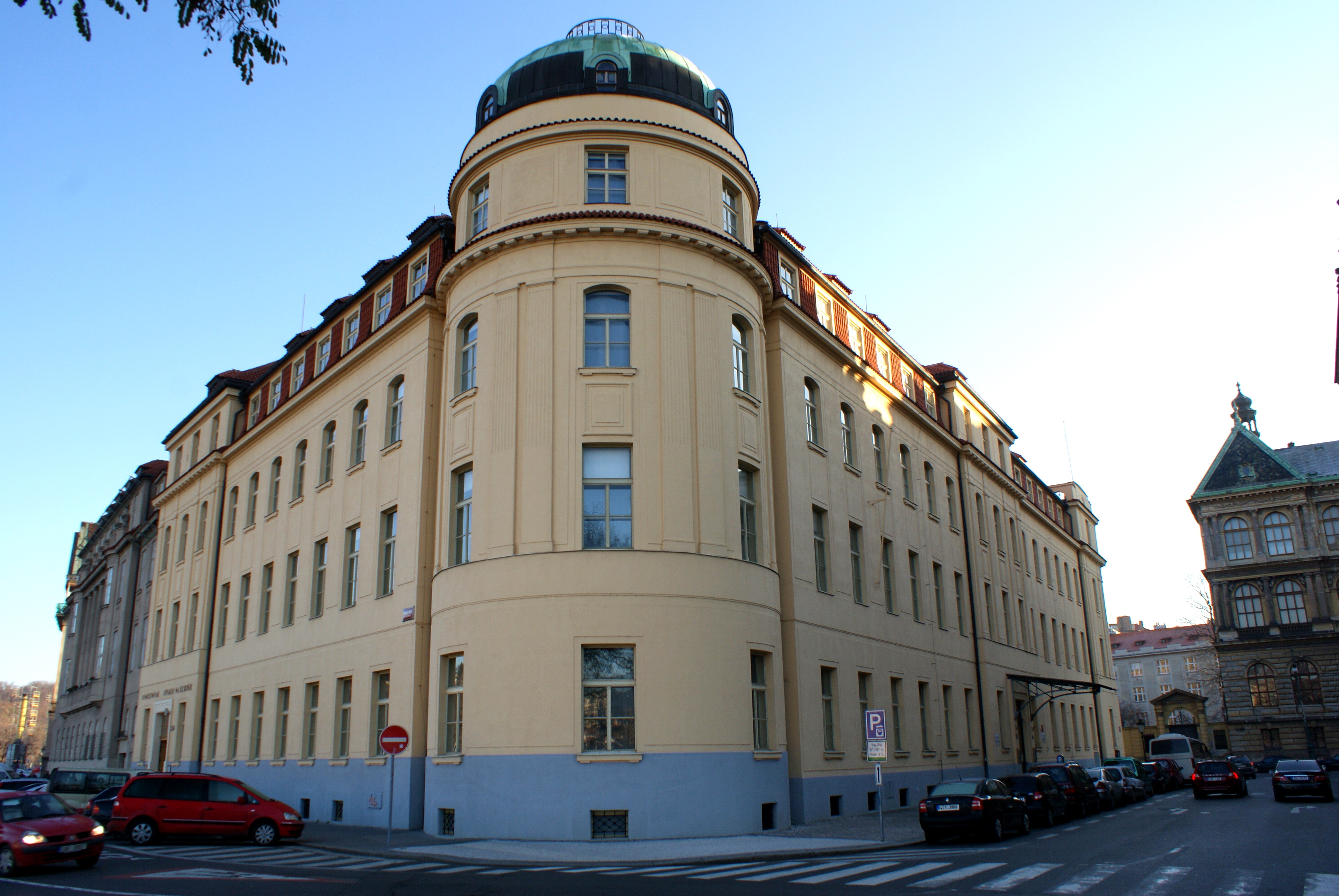 Prague Conservatory, Czech Republic, seen from Vltava river